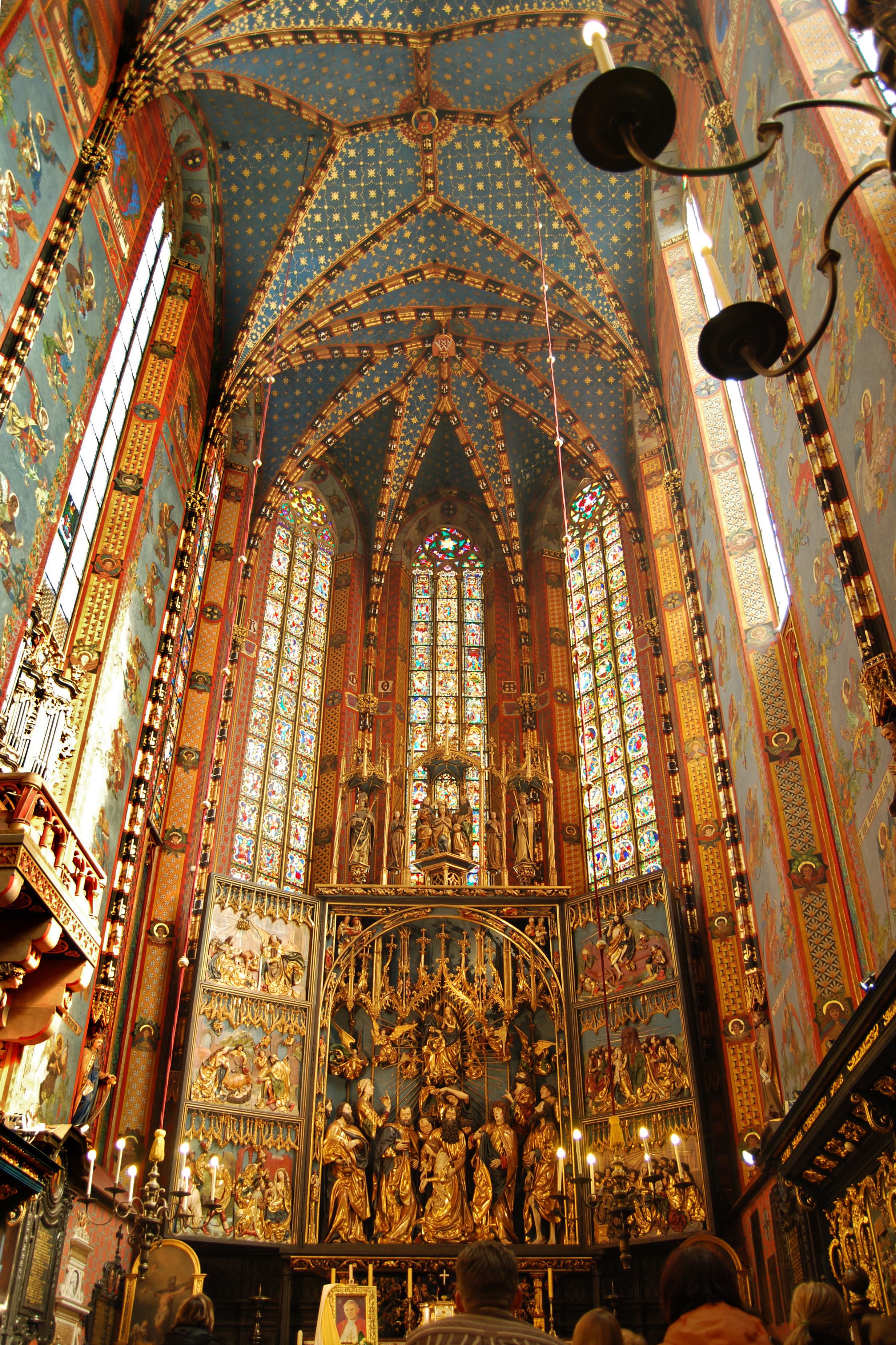 Altar of St Mary's church Krakow, with triptych by Veit Stoss